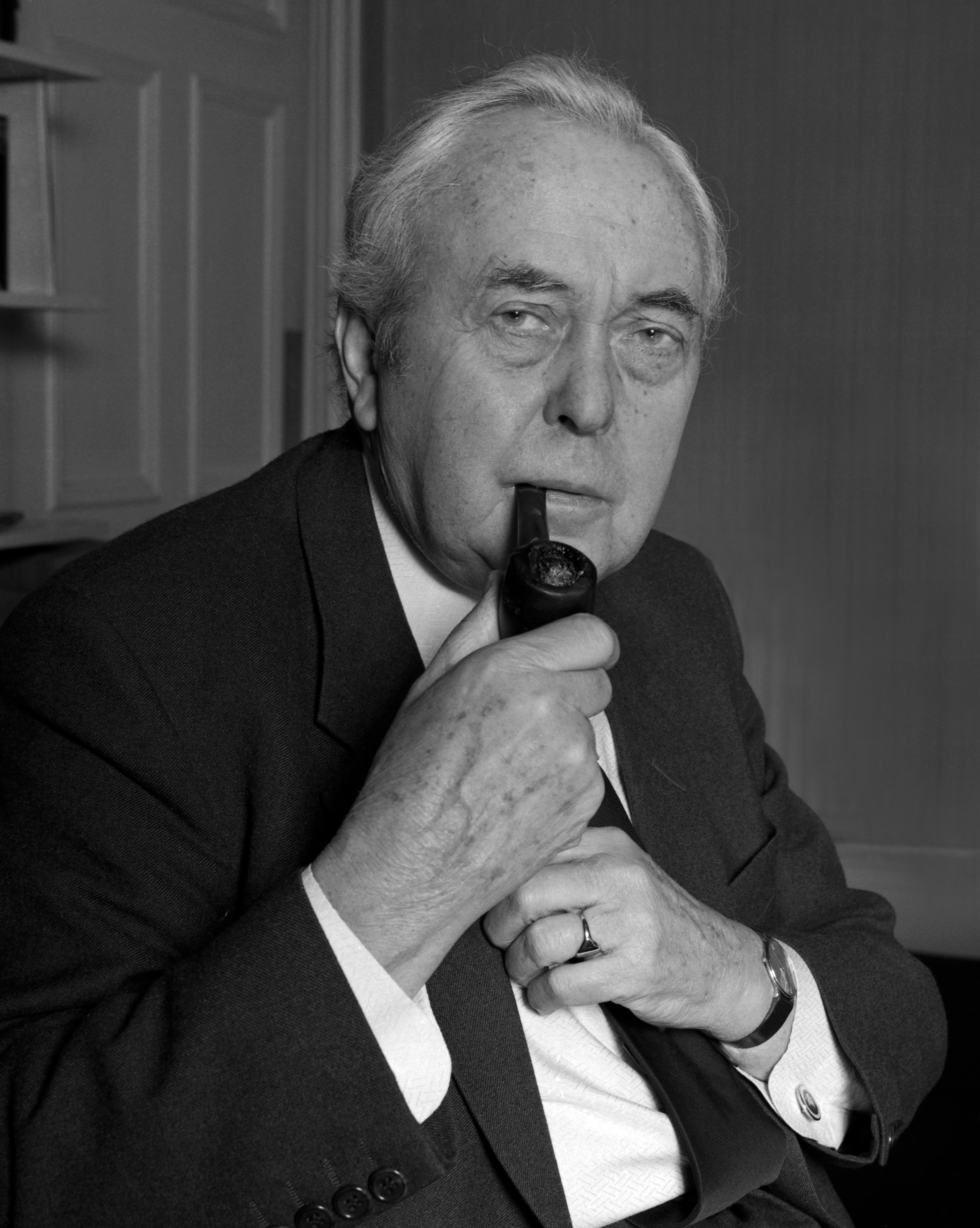 Harold Wilson, Lord Wilson of Rievaulx KG OBE FRS FSS PC, taken in his apartment in Westminster London